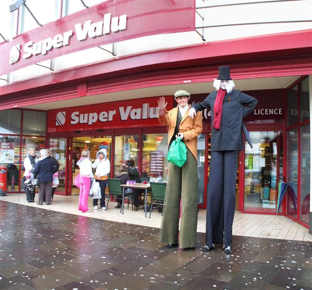 Ebenezer Scrooge and Bob Cratchit, Omagh. Pictured outside Supervalu in Market Street - are they actually spreading Christmas cheer?